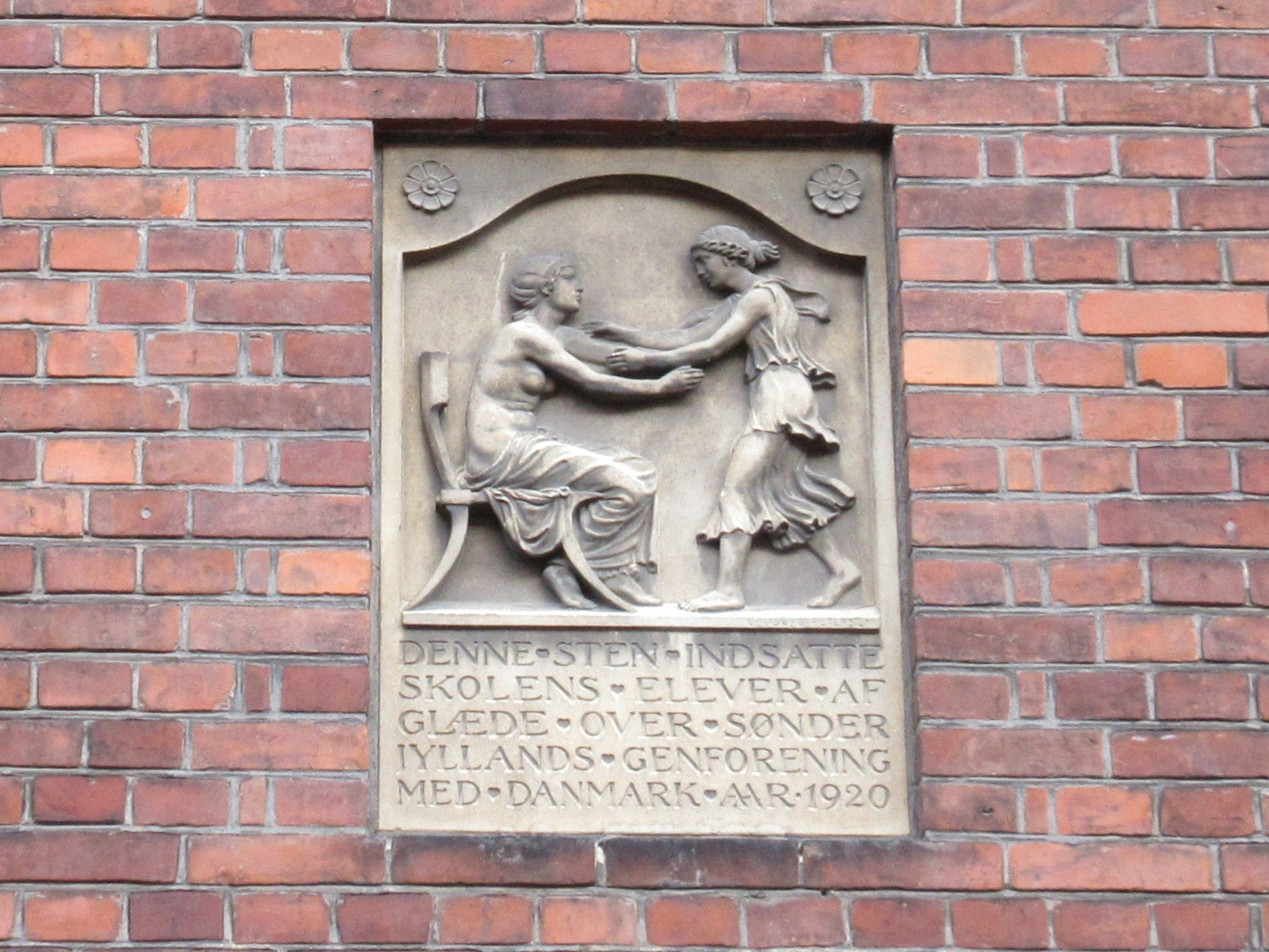 Sjællandsgade Skole - mindeplade